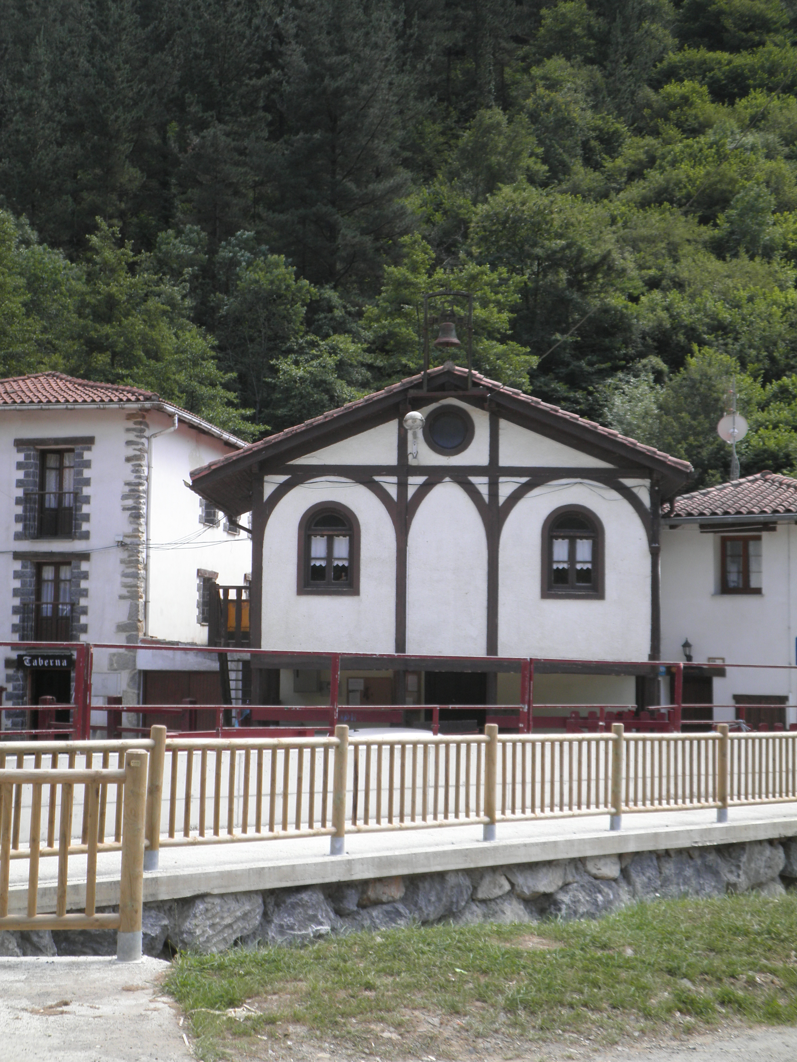 Church in Lastur.